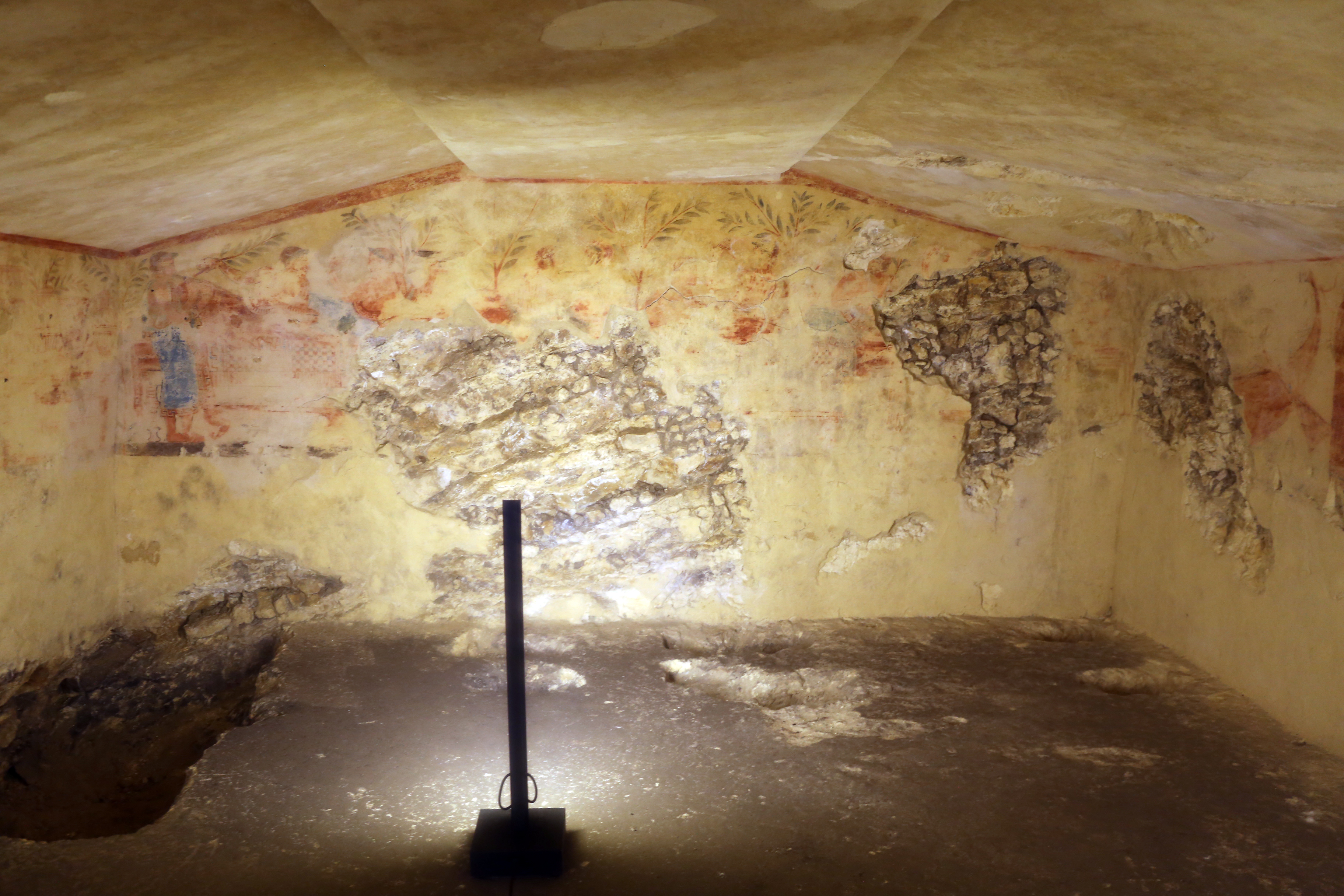 Necropoli dei Monterozzi (Tarquinia)